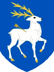 Coat of arms of Vsevelikoe Voisko Donskoe.